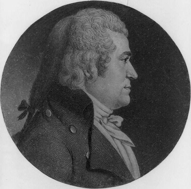 Samuel Smith, head-and-shoulders portrait, right profile